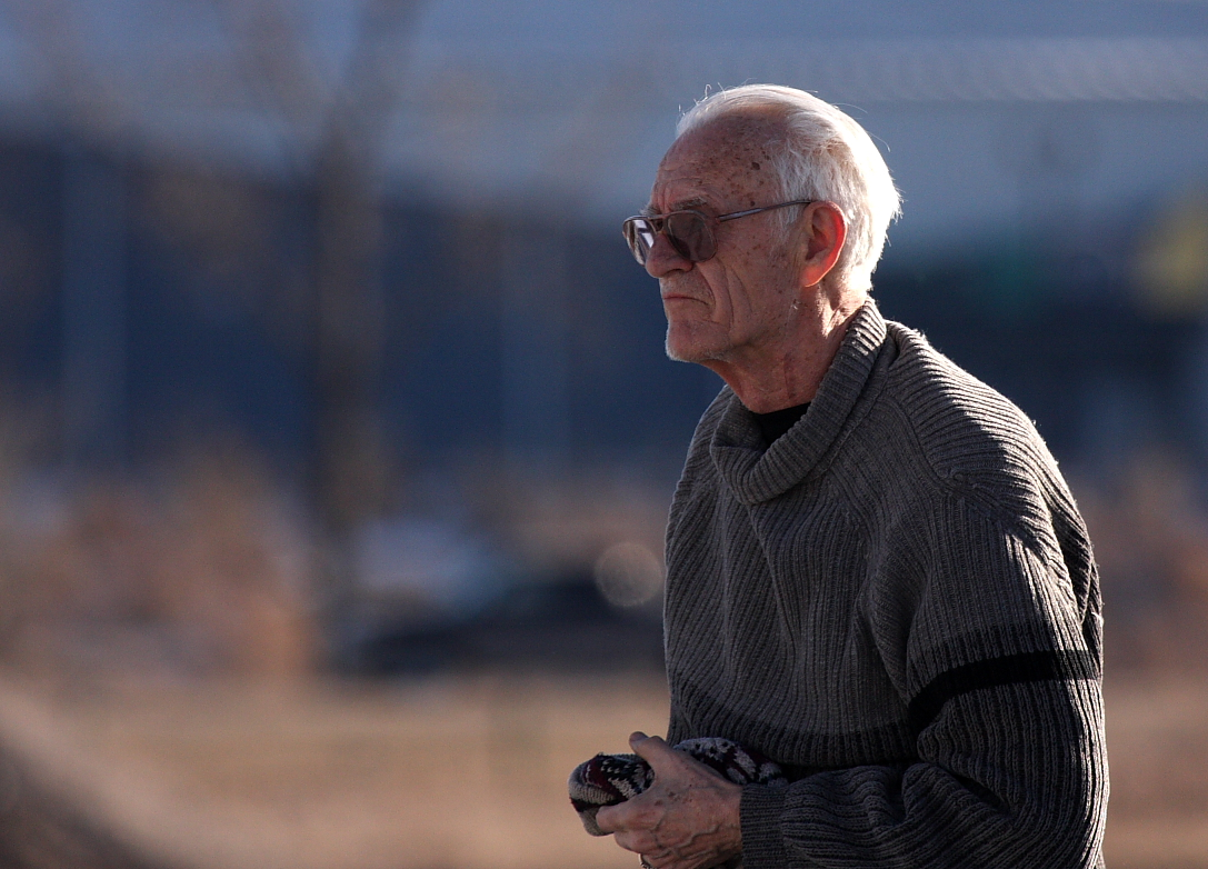 Photograph of Paul Johnsgard, taken at Kearney, Nebraska.